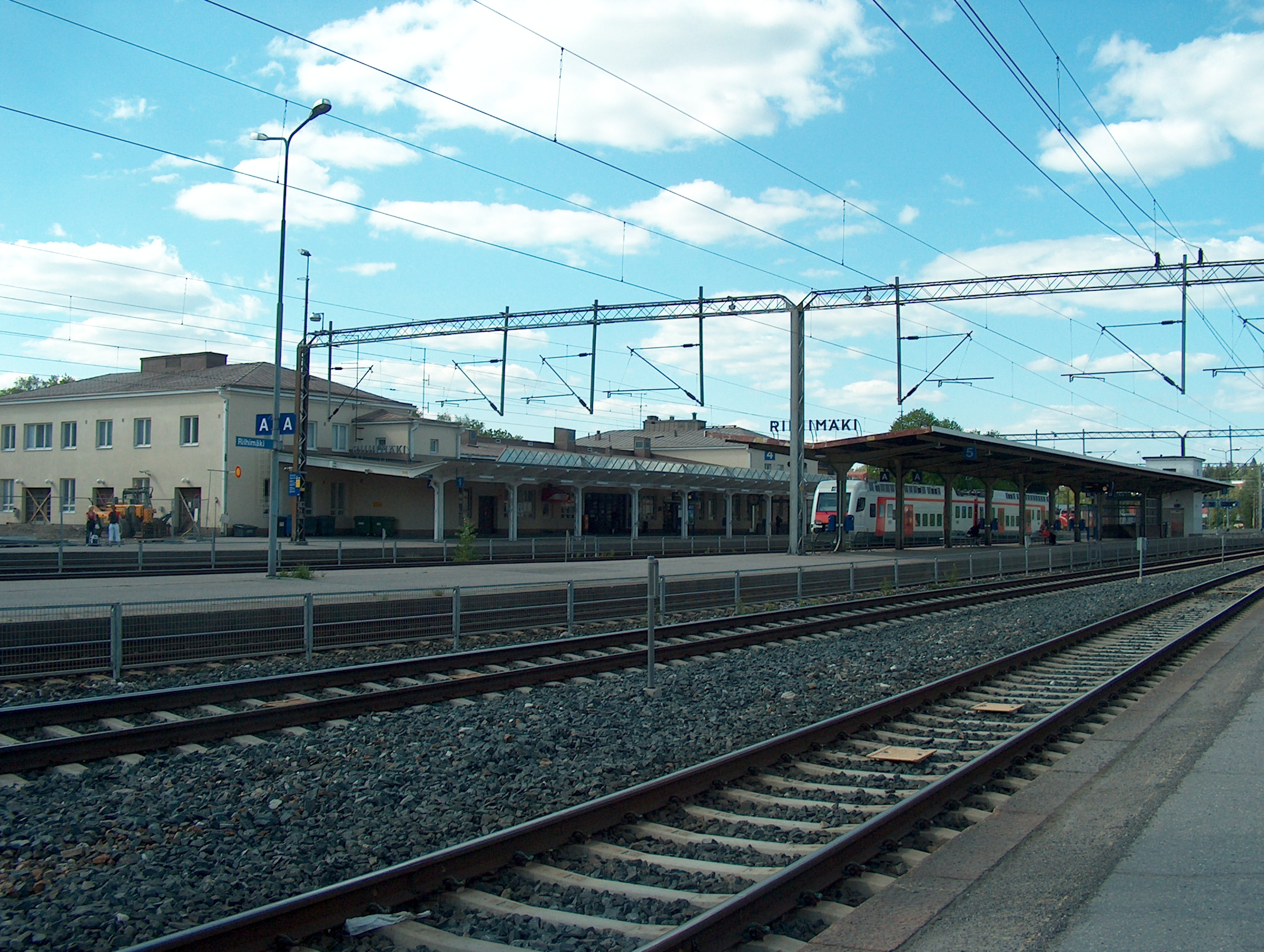 Riihimäki Railway Station in May 2008